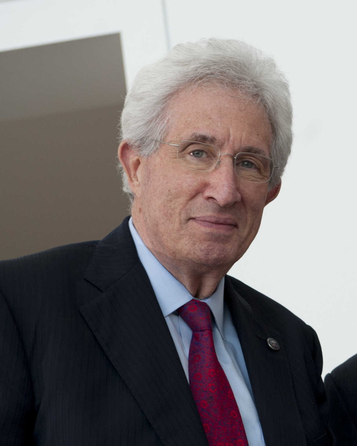 Richard H. Solomon, president, United States Institute of Peace and J. Robinson West, chairman of the Board of Directors, United States Institute of Peace, present Secretary Leon E. Panetta with the Dean Acheson Award after delivering remarks at the 5th annual Dean Acheson Lecture to discuss “The Practice of Partnership in the 21st Century”, United States Institute of Peace, Washington, D.C., June 28, 2012. (DOD photo by U.S. Navy Petty Officer 1st Class Chad J. McNeeley)